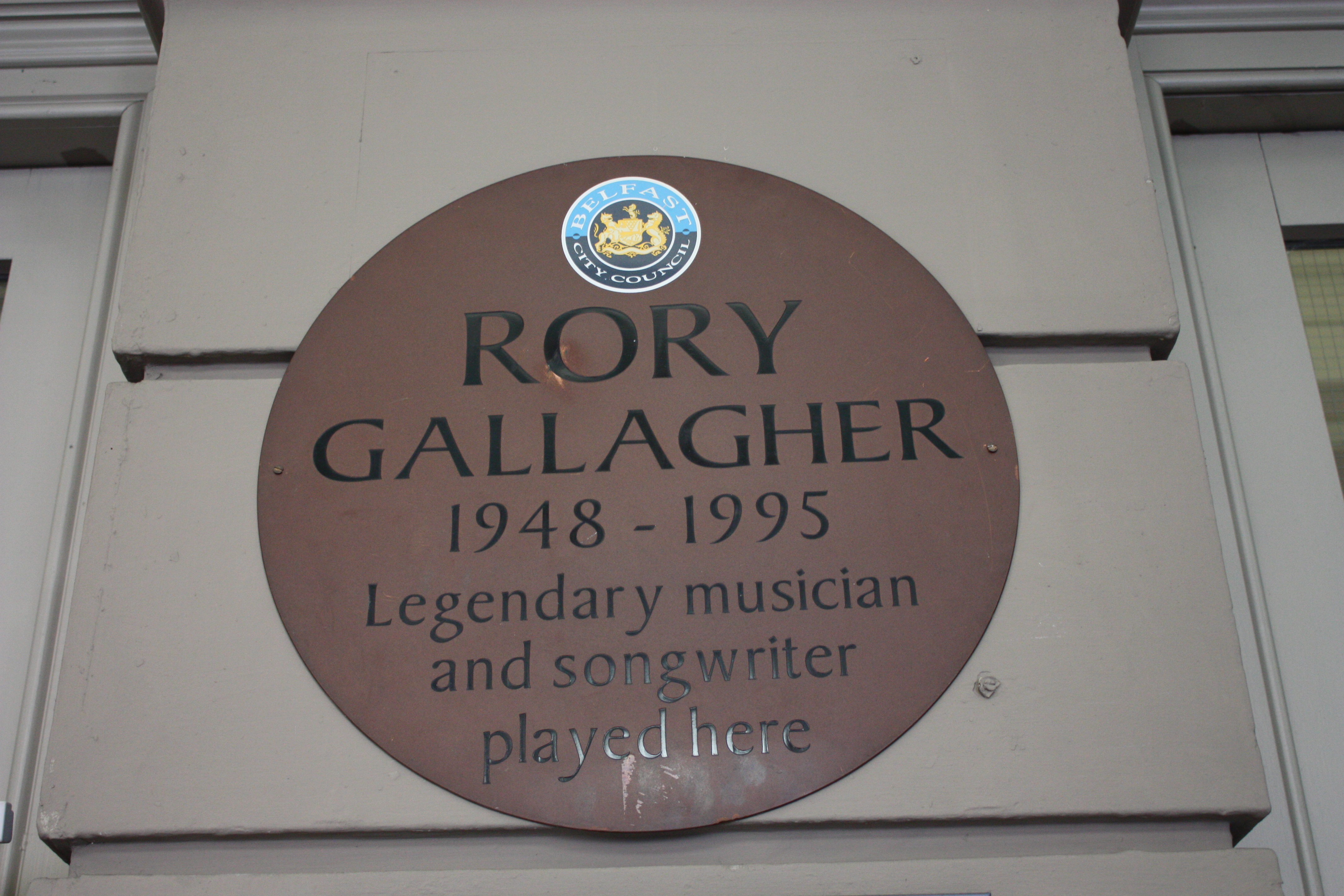 Rory Gallagher plaque, Ulster Hall, Bedford Street, Belfast, Northern Ireland, October 2010